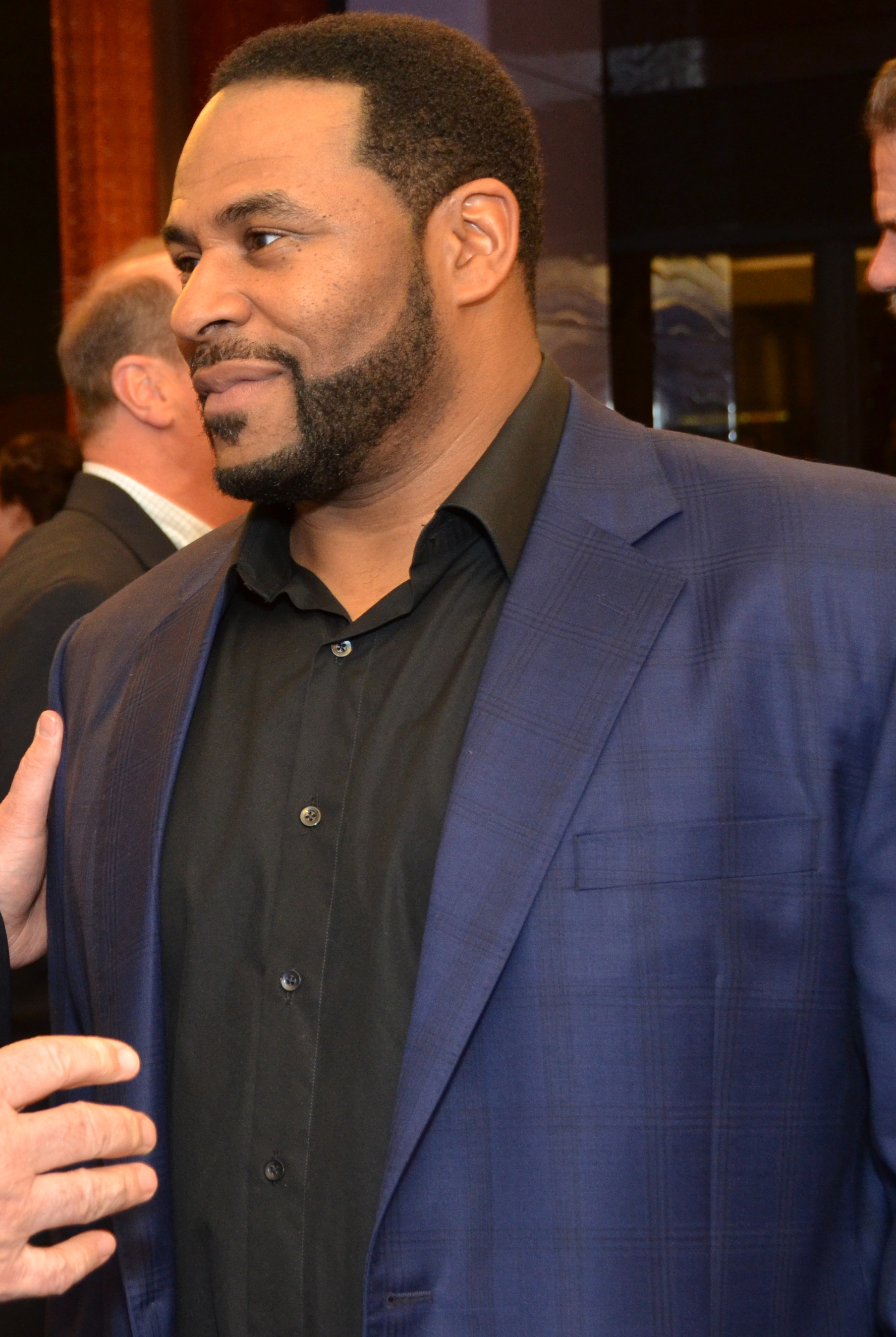 Former Pittsburgh Steelers Running Back, Jerome Bettis at Dairy Management, Inc. Super Bowl Welcome Reception in Santa Clara, CA on Saturday, Feb. 6, 2016. USDA photo by Veronica Davison.